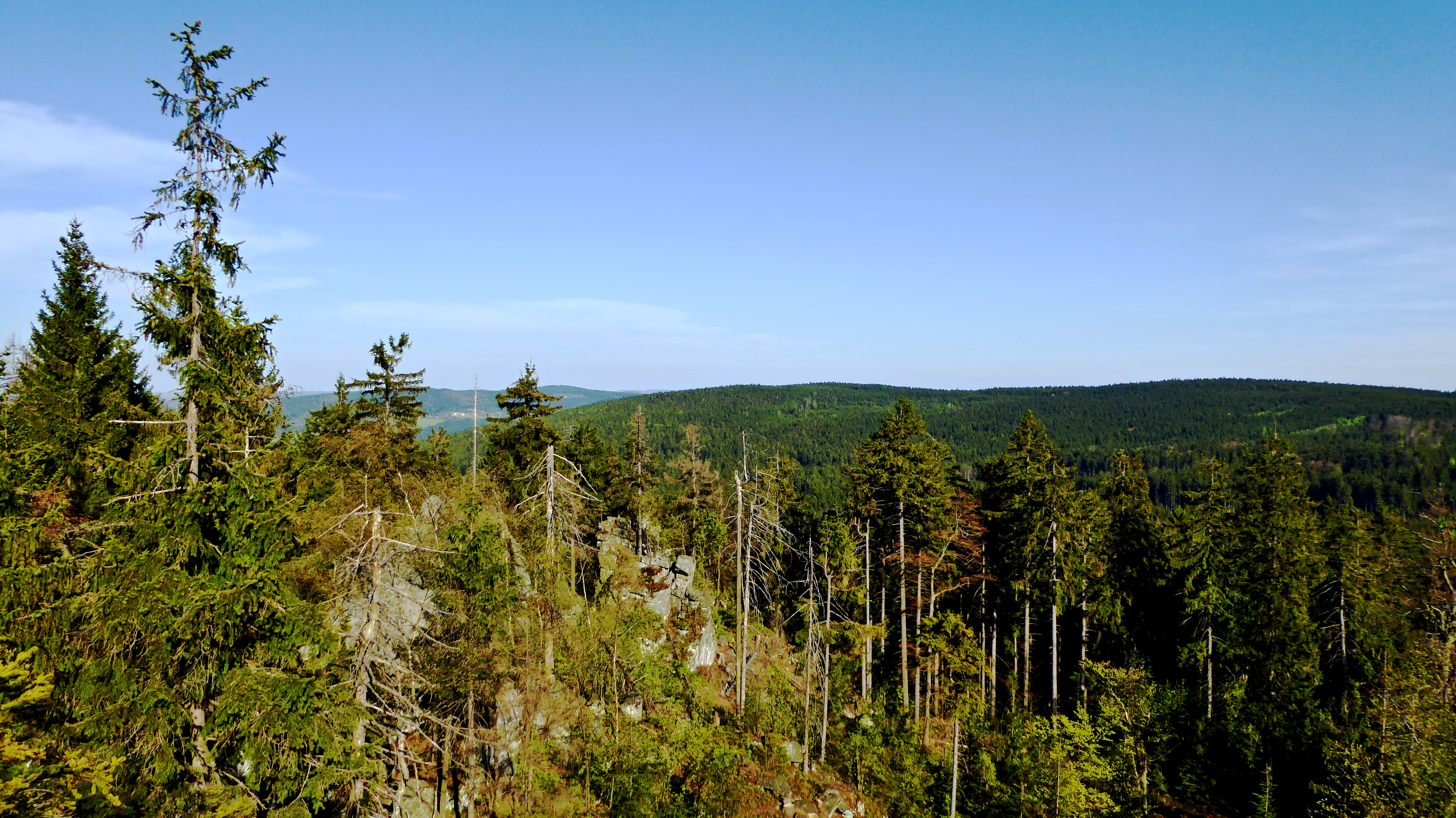 Žďár Hills (Czech Republic), geographical name of the natural area of the type highland (geomorphological unit) a with a larger area also the geographical name of the protected territory (protected landscape area). View from their highest peak Nine Rocks (836.3 m above sea level), the wooded ridge of the "Devítiskalská" Highlands. In the left part of the photo, between the trees, part of the rock wall of the natural monument Nine Rocks, behind her on the horizon, there are the peaks of the "Pohledeckoskalská" Highlands. In the forested topline, on the right, the natural monument "Malinská" Rock. Factography: Žďár Hills are a landscape area (orography unit) in the northwest of the "Hornosvratecká" Highlands and her geomorphological sub-area (part of whole) with an area of 485.78 square km, a part of the Bohemian-Moravian Highlands in the regional divide of the georelief of the Czech Republic. In terms of administrative, it is located in the Vysočina Region, a smaller northern part it is in the Pardubice Region. Note: The protected landscape area Žďár Hills hat 708.9 square kilometers. Photo location: Czechia, Vysočina Region, villages Křižánky, "Devítiskalská" Highlands, the natural monument Nine Rocks.